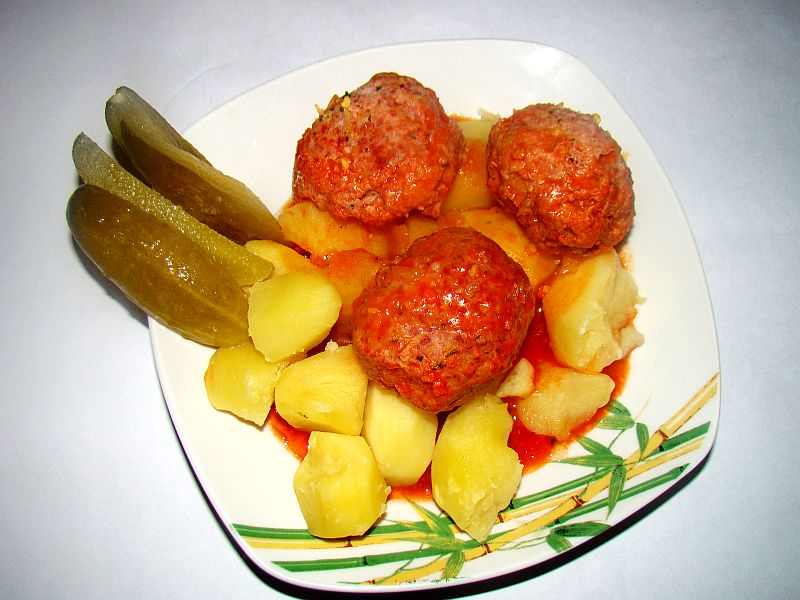 polish meatballs